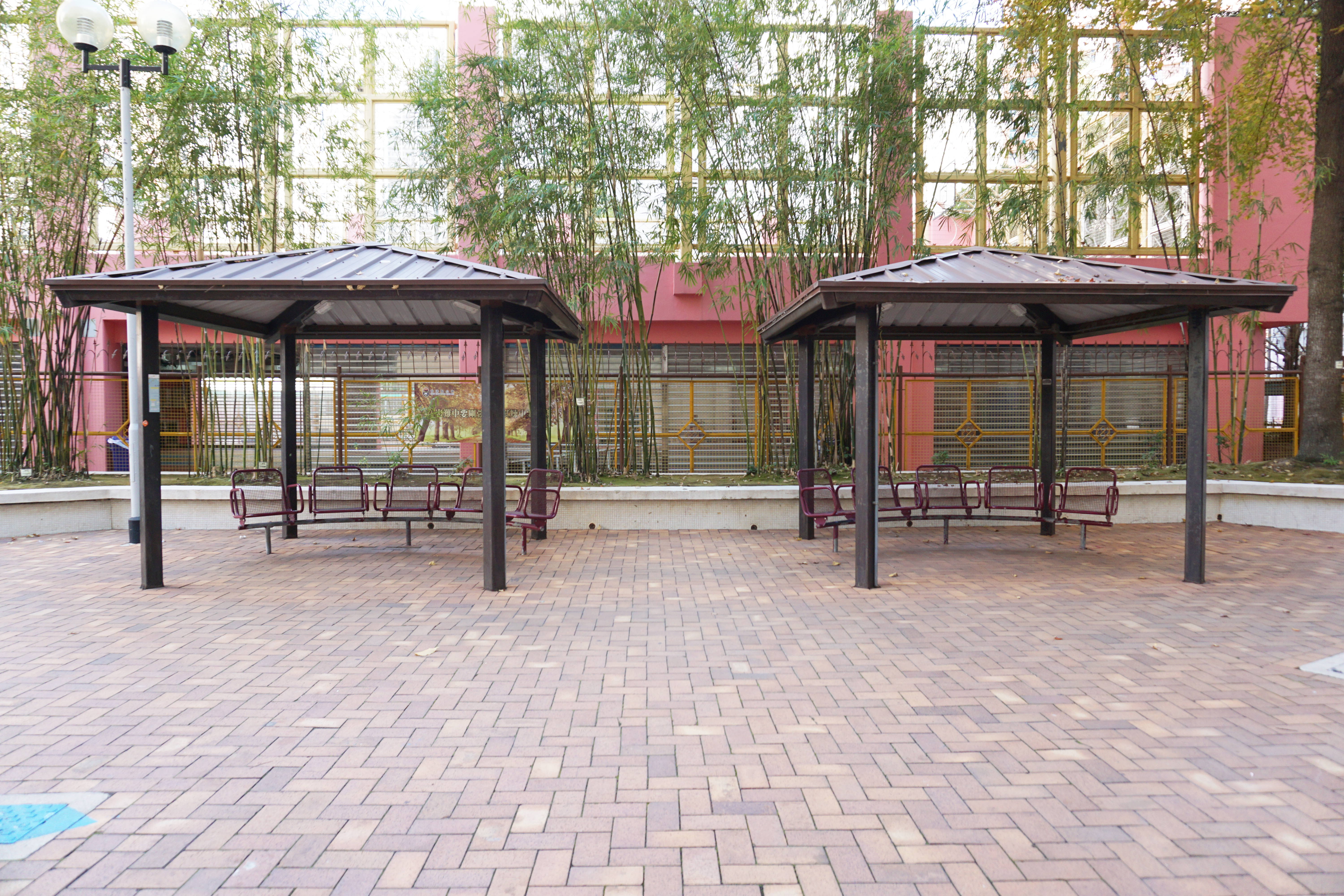 Lok Wah South Estate in Ngau Tau Kok, Hong Kong.